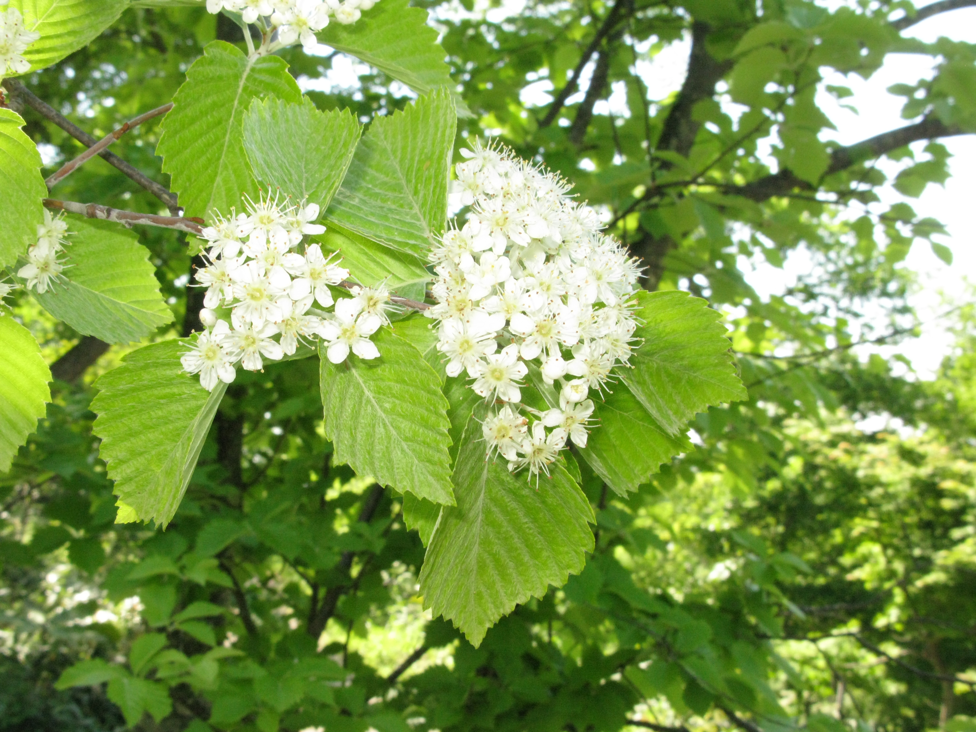 Aria japonica, Aizu area, Fukushima pref., Japan